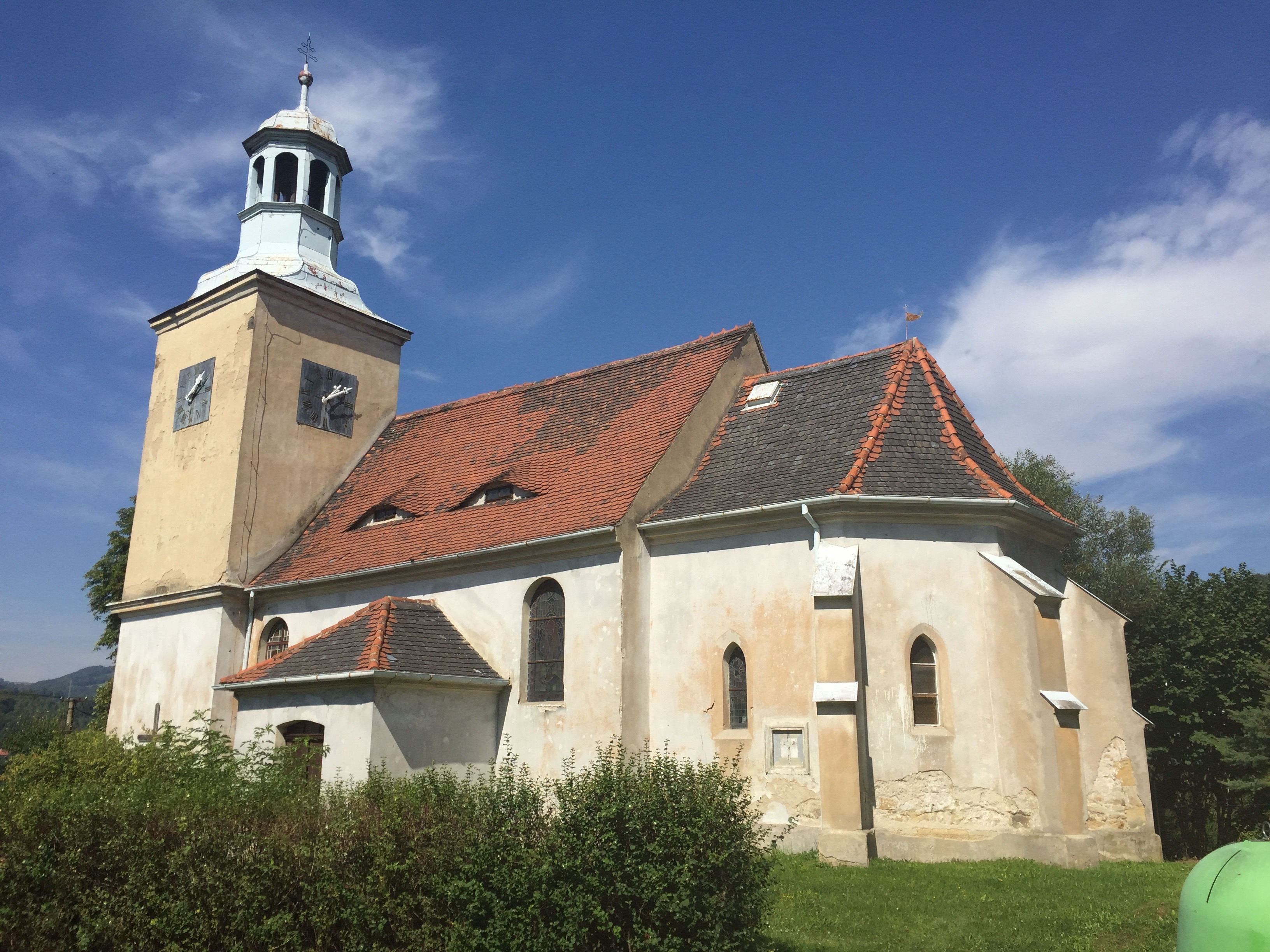 Church of the Beheading of St. John the Baptist in Těchlovice